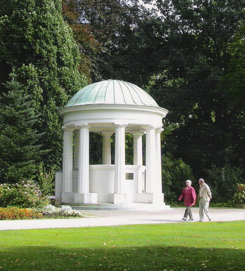 Spring house of Lepold fountain in spa gardens of Bad Salzuflen, District of Lippe, North Rhine-Westphalia, Germany.